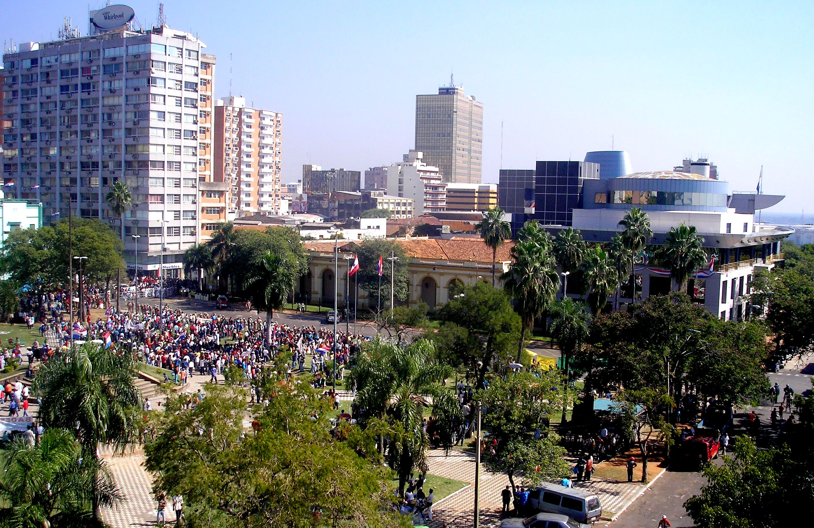 Asunción capital del Paraguay, Plaza de Armas